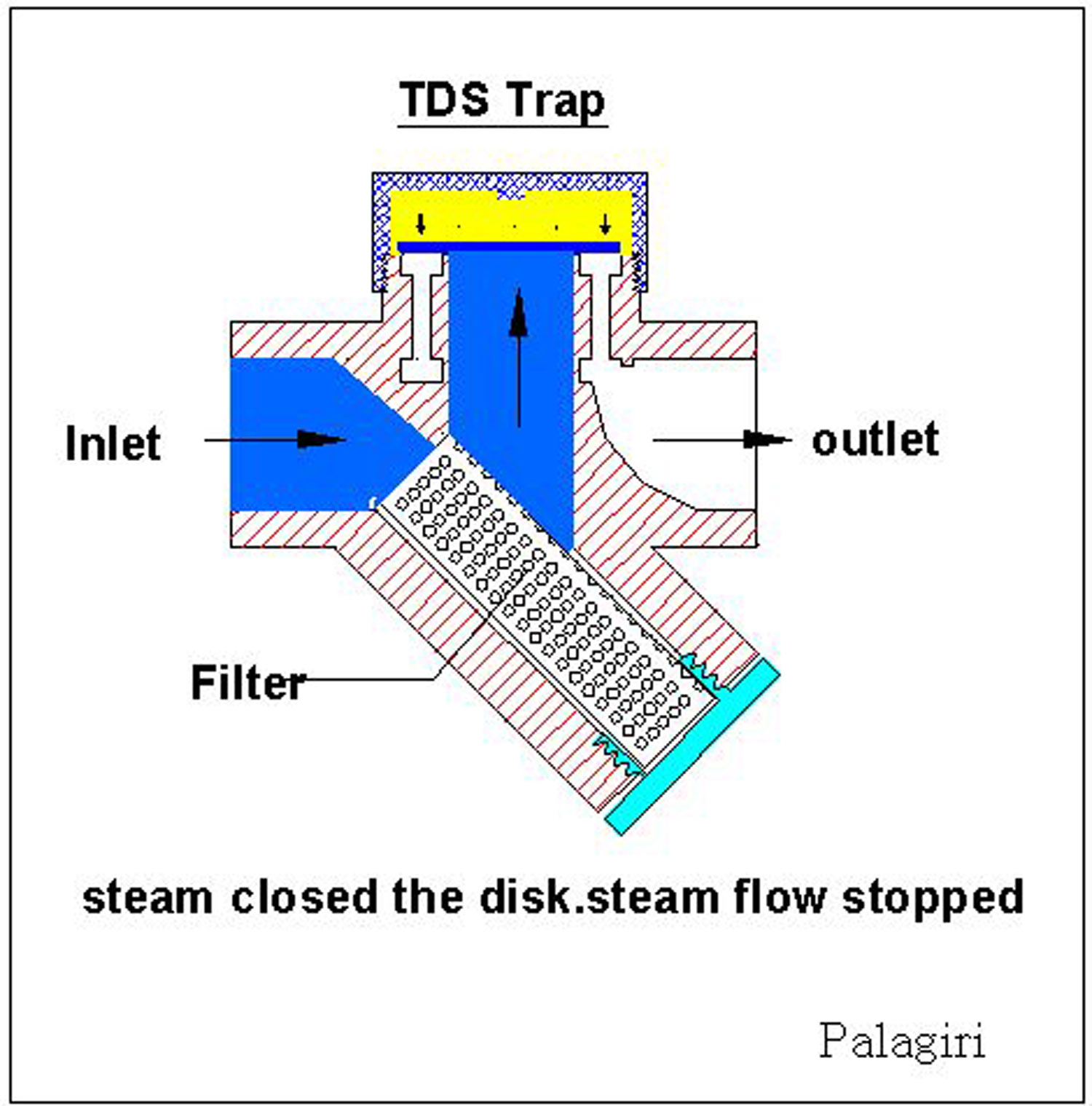 TDS trap